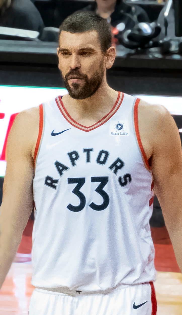 Marc Gasol playing for Toronto Raptors in 2019 v Charlotte Scotiabank Arena